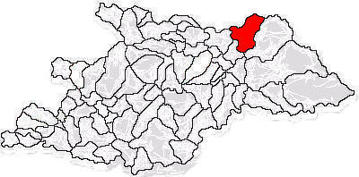 Map of Repedea commune in Maramureş County Romania